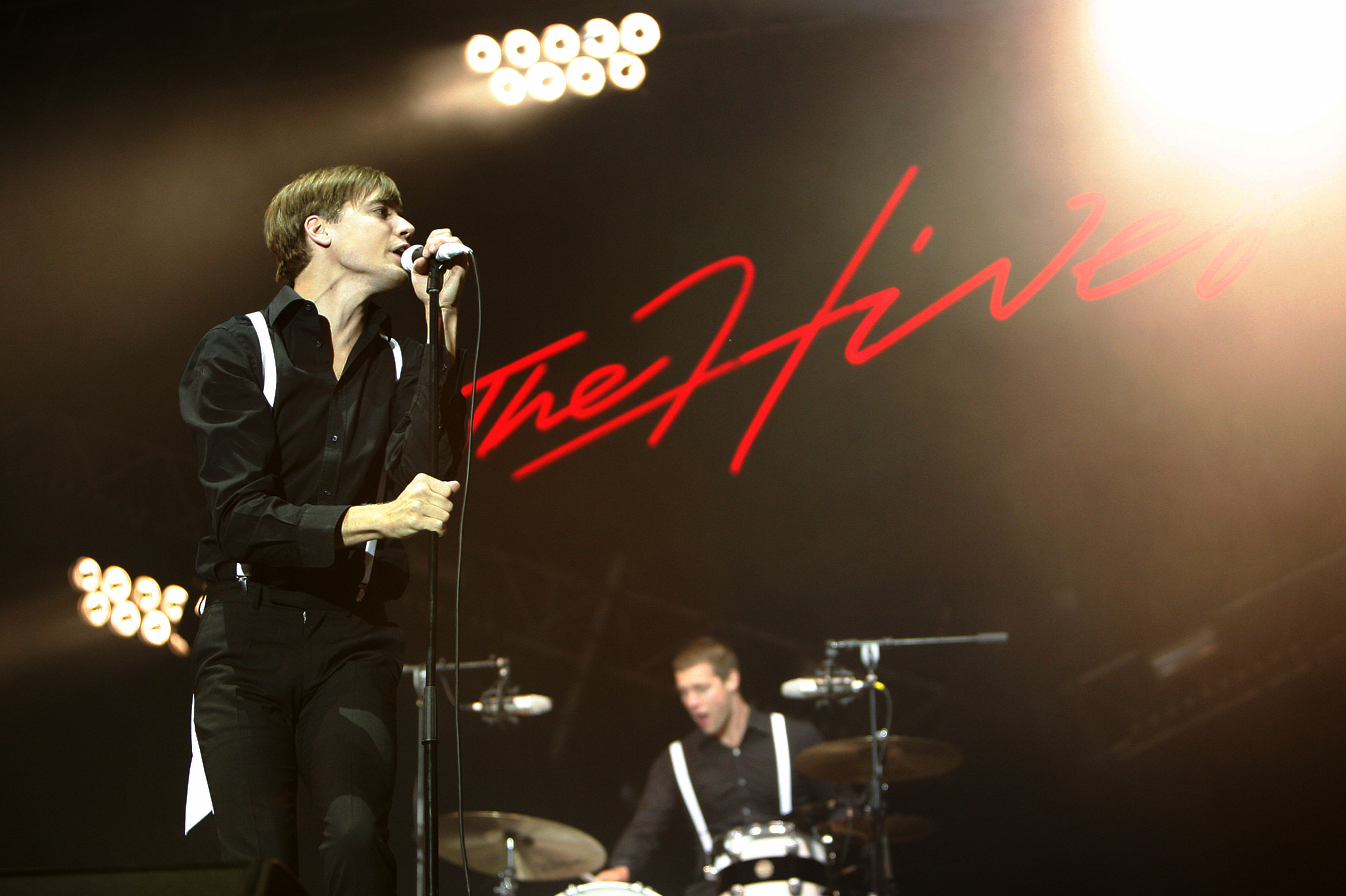 The Hives at the Eurockéennes of 2007